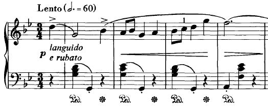 Beginning of the Nocturne Op. 15 No. 3 by Fryderyk Chopin.